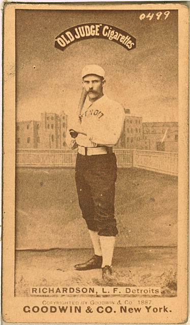 Hardy Richardson baseball card, Old Judge (N172) Tobacco Company, en:1887-en:1890 From the collection of the Library of Congress and believed to be in the public domain